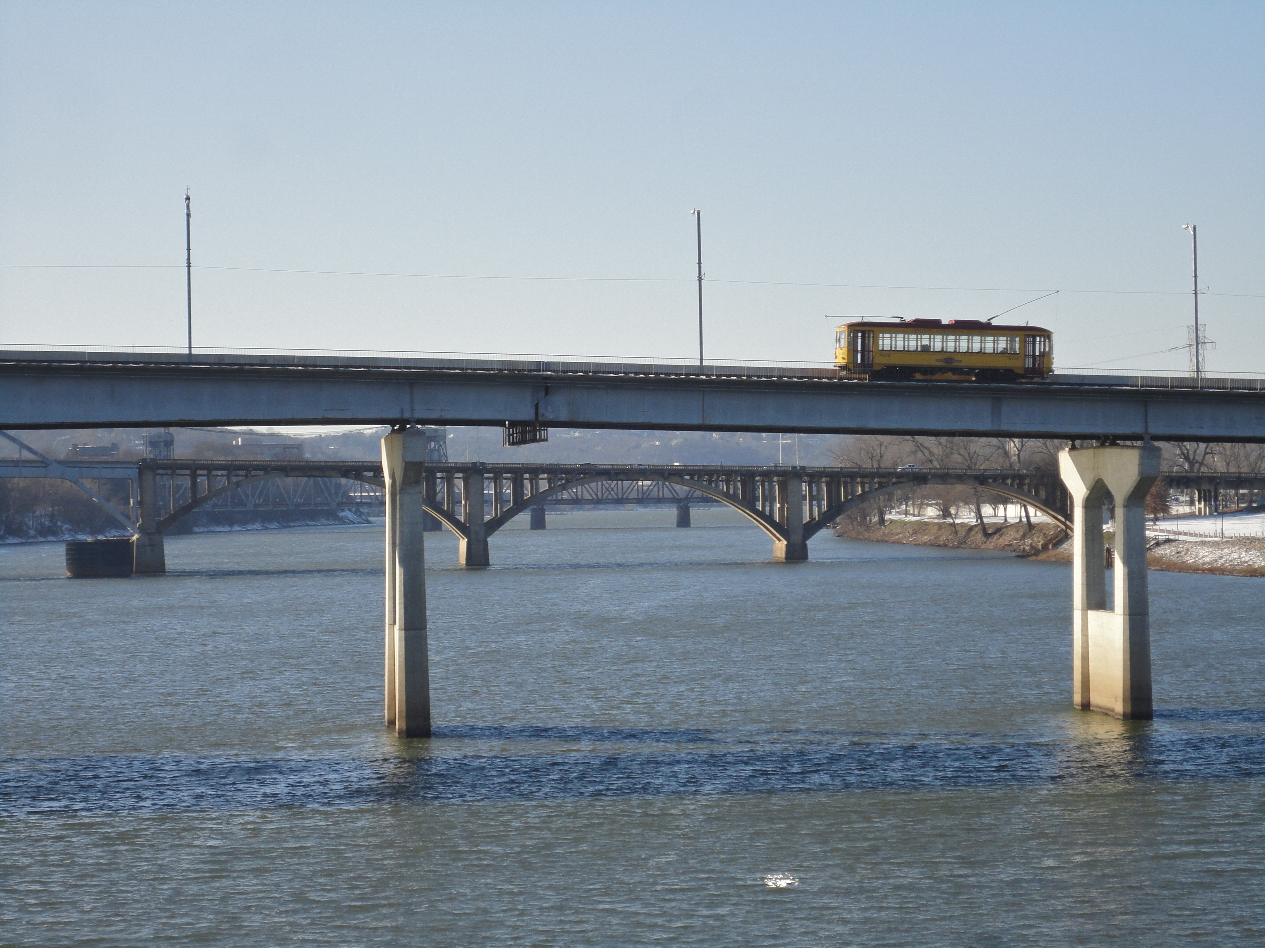 Trolley crossing the Arkansas River in Little Rock, Arkansas, in service on the 2004-opened River Rail Streetcar line.